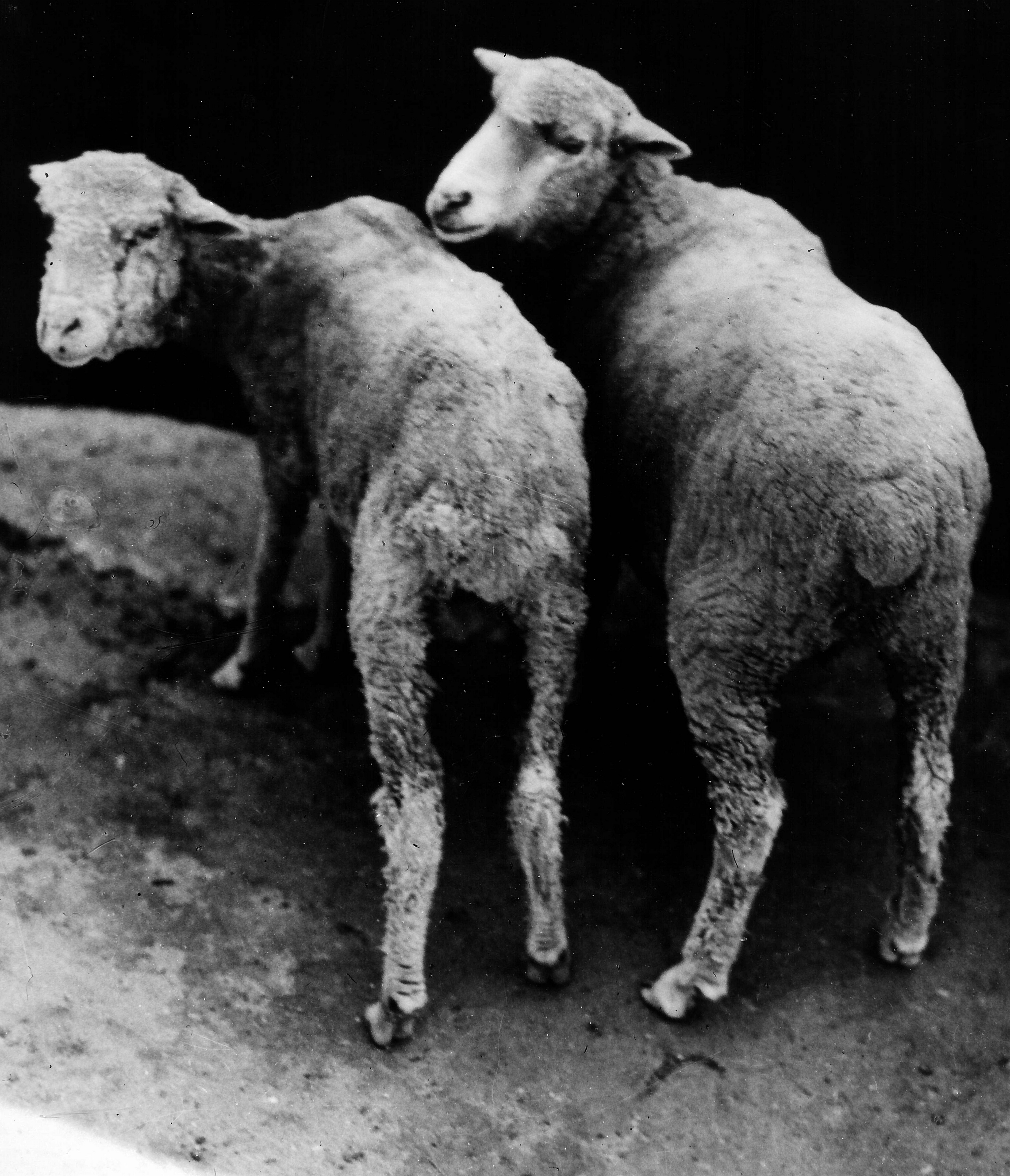 At the Nutritional Biochemistry laboratory - cobalt deficient ewes produced by feeding cobalt-deficient wheaten hay chaff grown on Glenthorne farm.